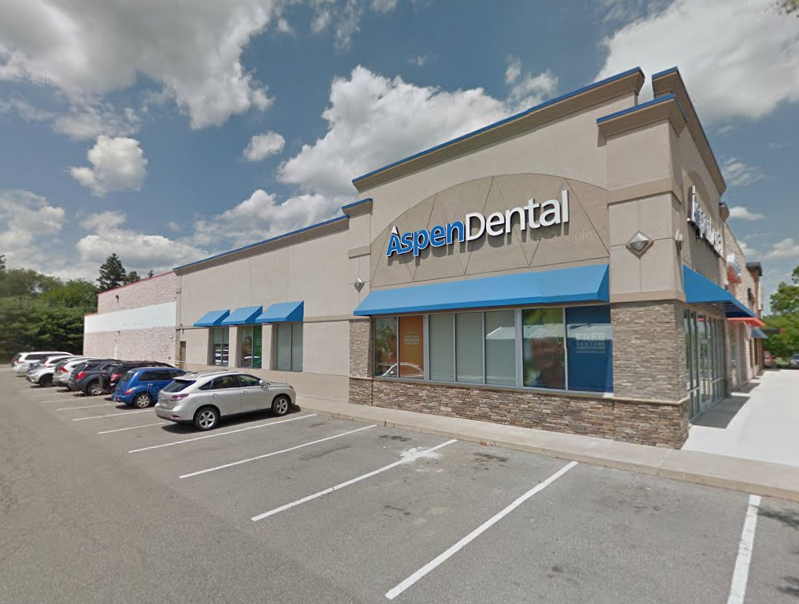 Outside of Aspen Dental